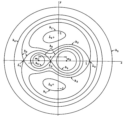 Mouton's Plot of Restricted 3-body made in 1917.